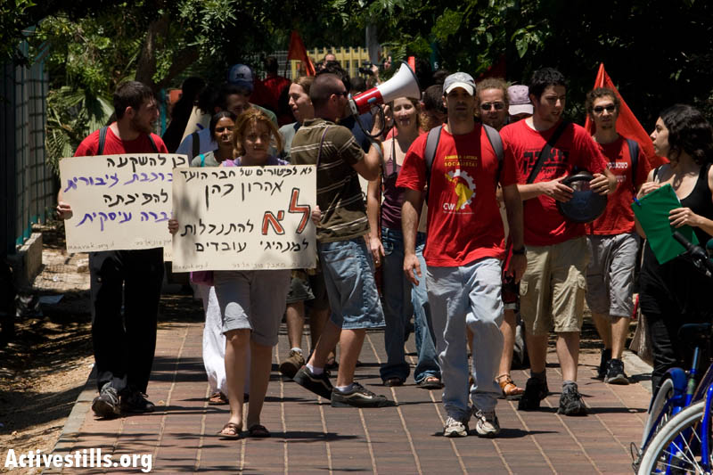 Socialist Struggle Movement - protest against redundancies in the Israeli Trains